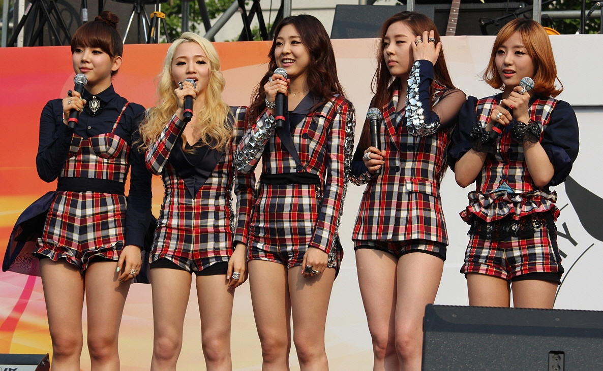 Ladies' Code on May 24, 2013